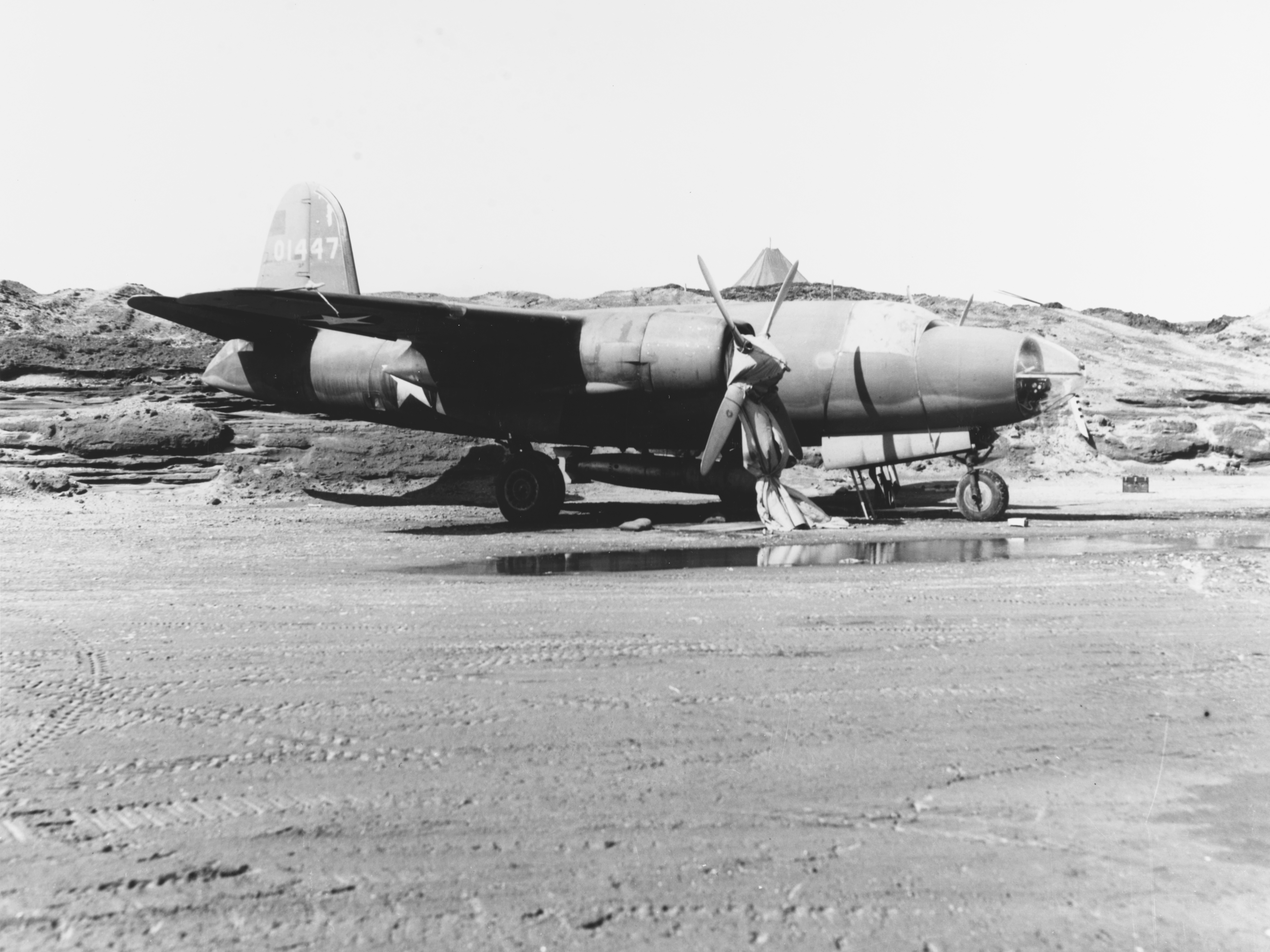 A U.S. Army Air Forces Martin B-26 Marauder medium bomber (USAAF s/n 40-1447) on the airfield at Cold Bay, Alaska (USA), with a Mark XIII aerial torpedo hung below its bomb bay, 11 May 1942.